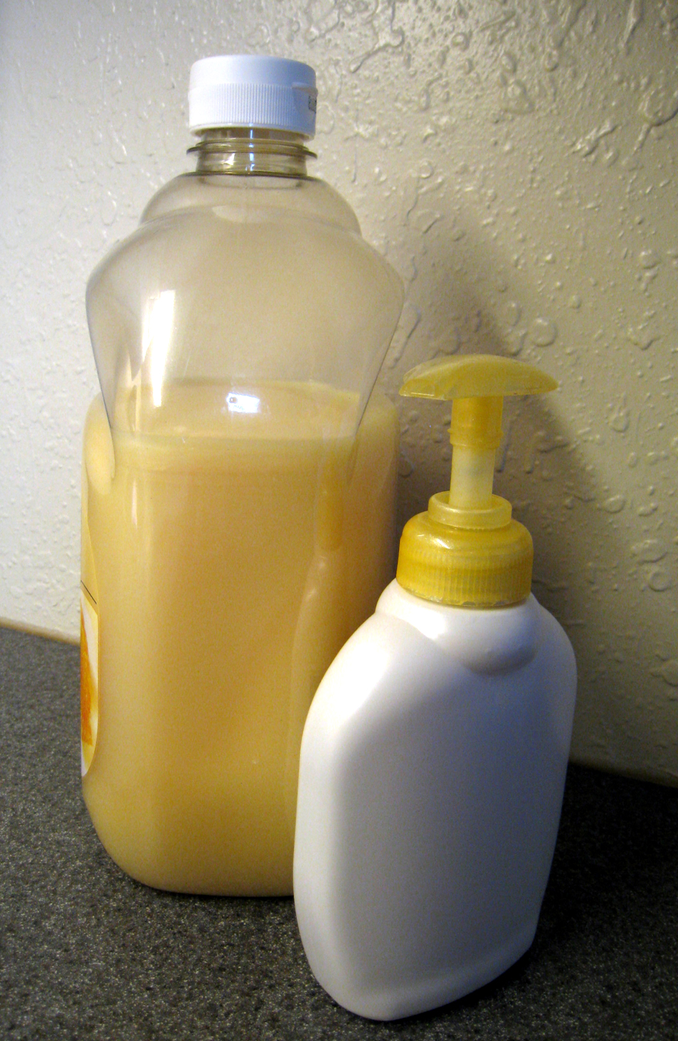 Liquid hand soap in a pump dispenser, next to a larger refill-sized bottle of the same soap.